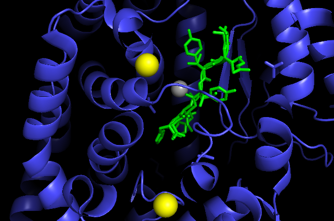 It shows angiotensin II in complex with ACE. The zink ion in the active site is shown in grey and the two chloride ions in yellow.